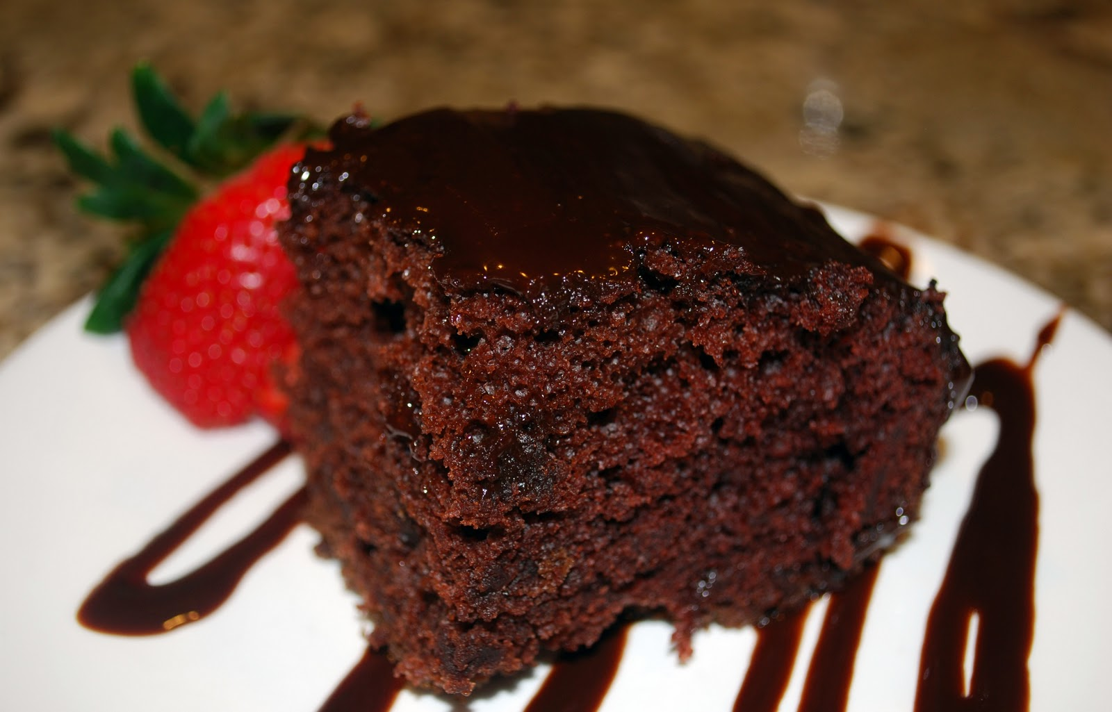 Delicious chocolate cake. A dessert created during a time when many people watched their wealth disappear and had to learn to make do on a very meager budget.